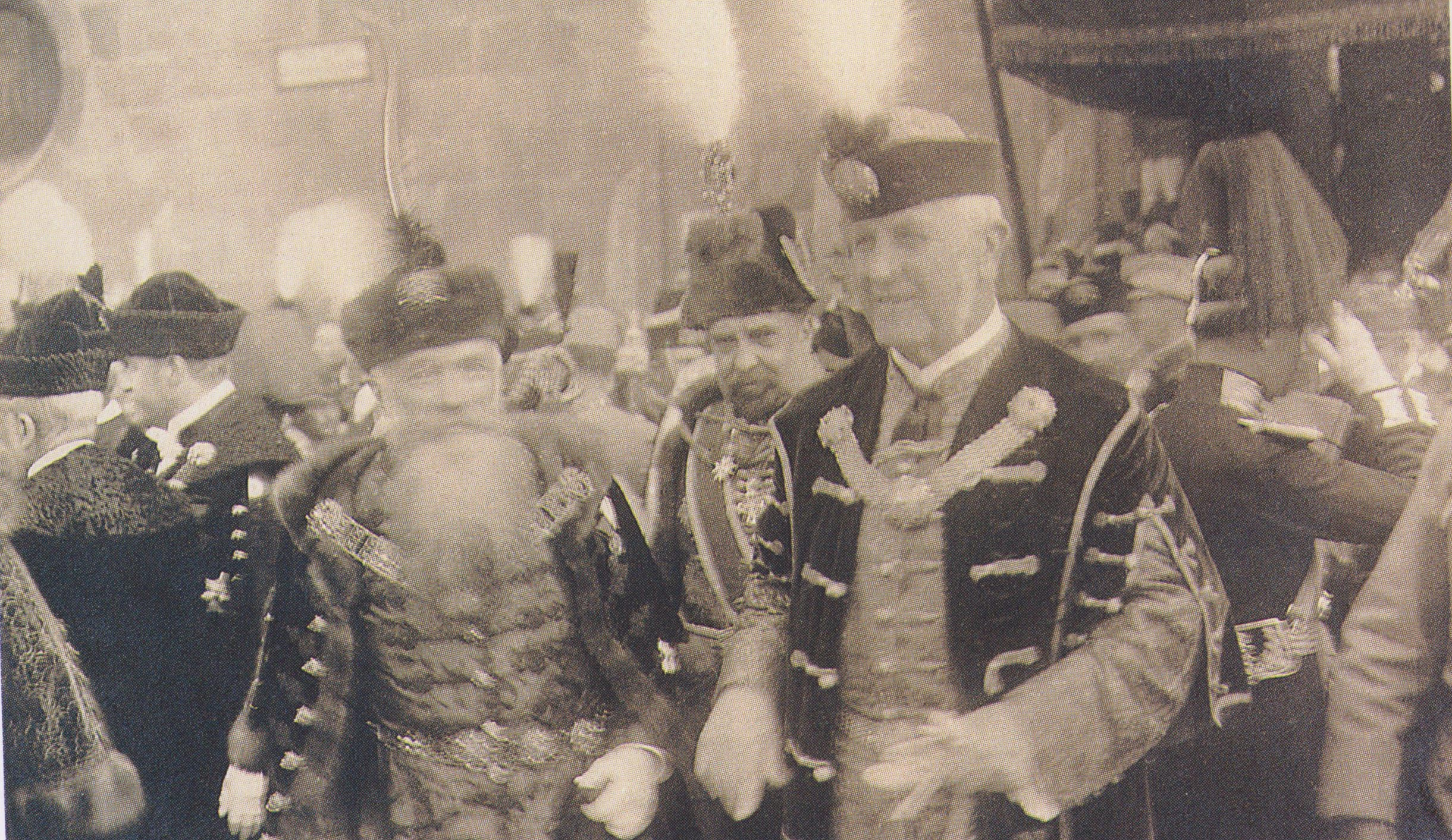 The newly-installed Prime Minister of Hungary Sándor Wekerle and other cabinet members in front of the Matthias Church in Hungary, during the St. Stephen Day's Procession on 20 August 1917.